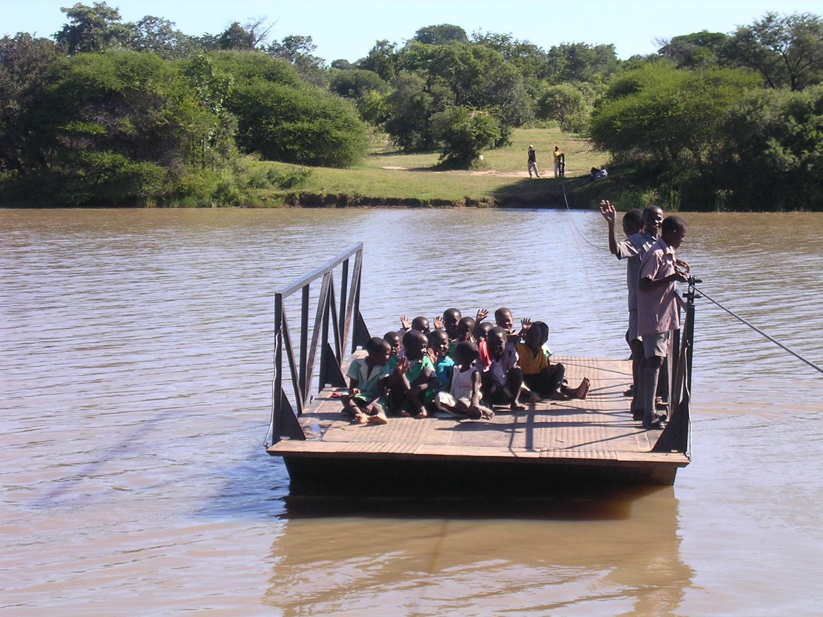 Insiza Ruver at Ekusileni Ferry, Zimbabwe